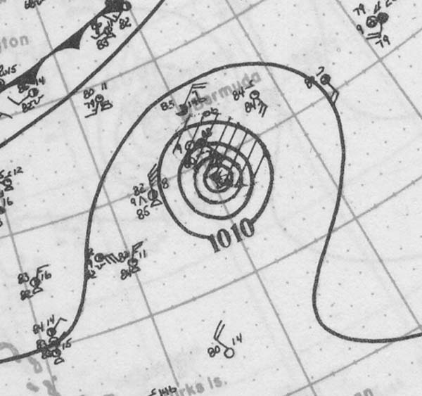 Surface analysis of Hurricane Two as it neared Bermuda as a Category 3 hurricane.